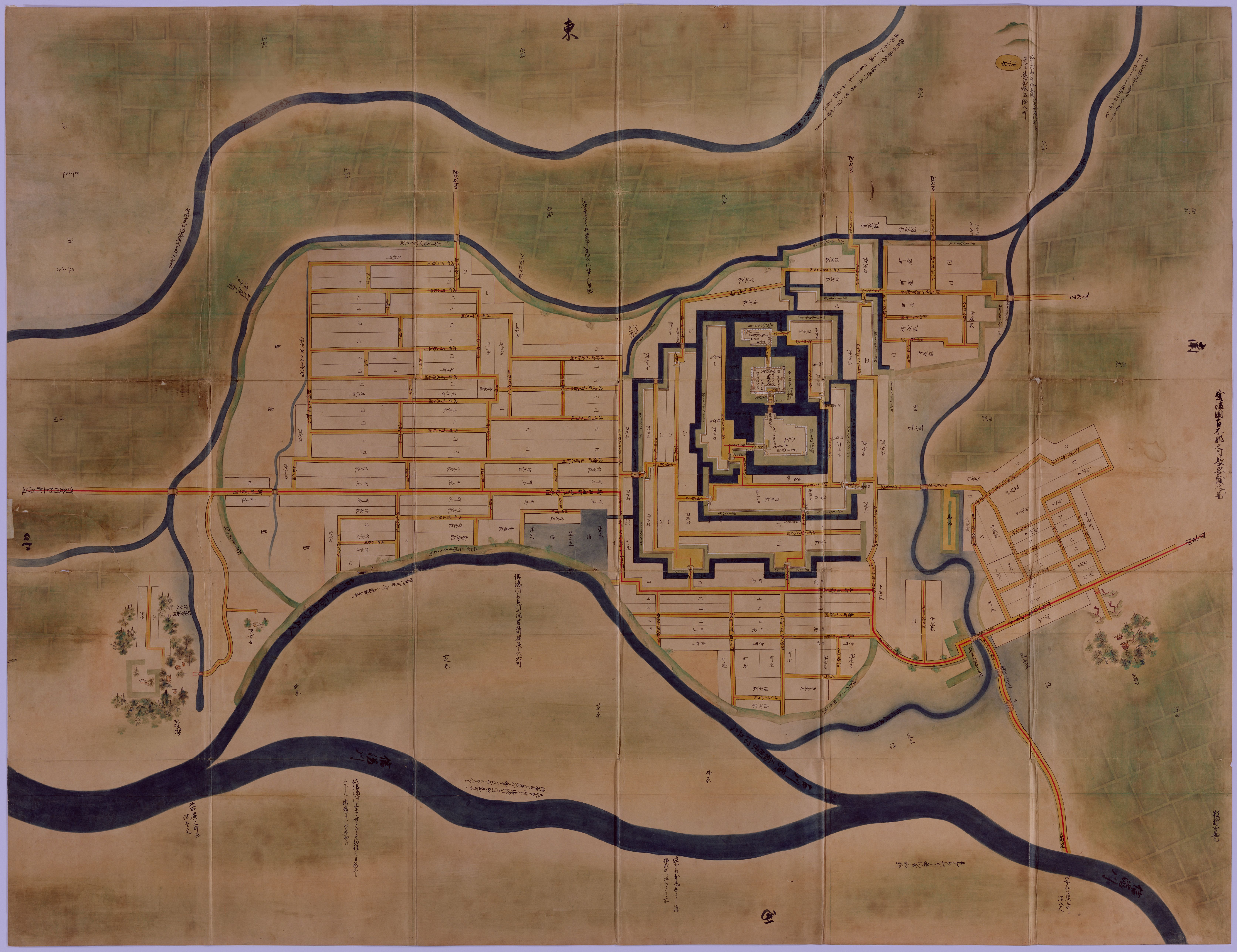 "Syokoku Jōkaku Ezu - Echigo-no-kuni Koshi-gun no uchi Nagaoka-jō no zu". Map of Nagaoka Castle in Shōhō era.